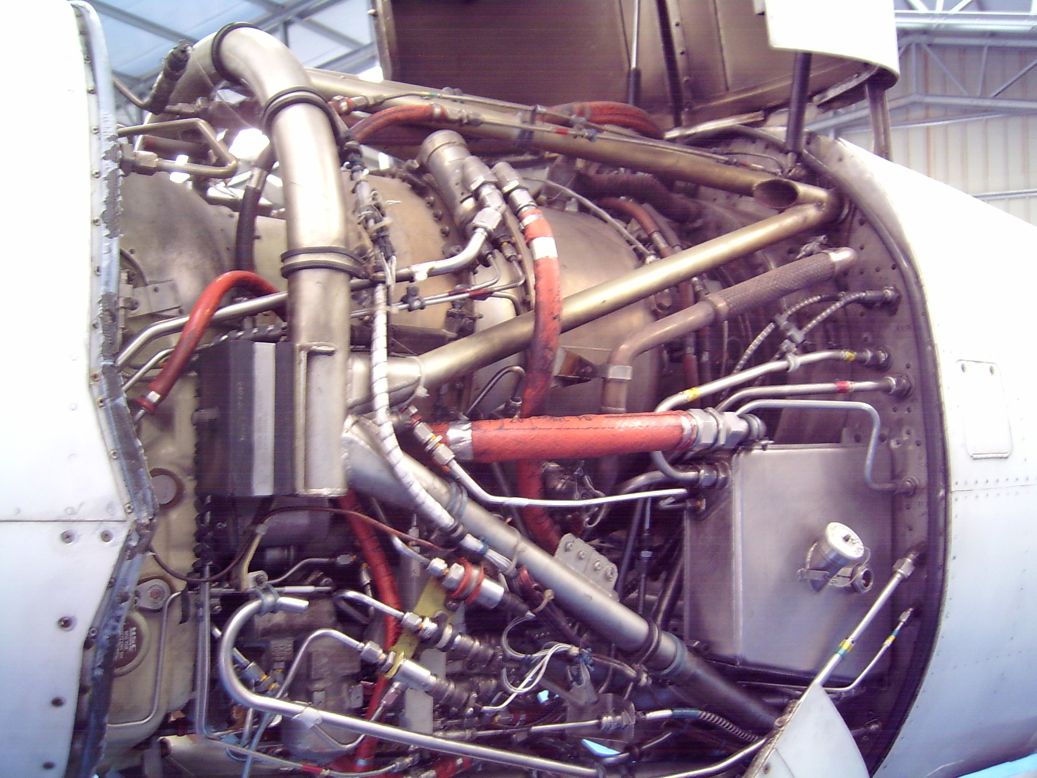 Fairchild Swearingen Metroliner propietat de TopFly (